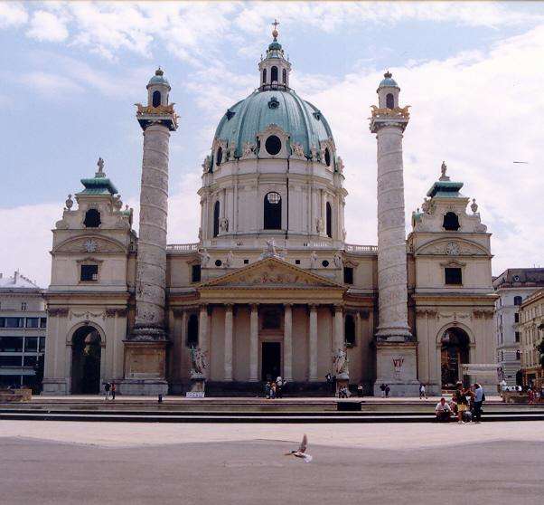 Austria, Vienna, St. Charles's Church